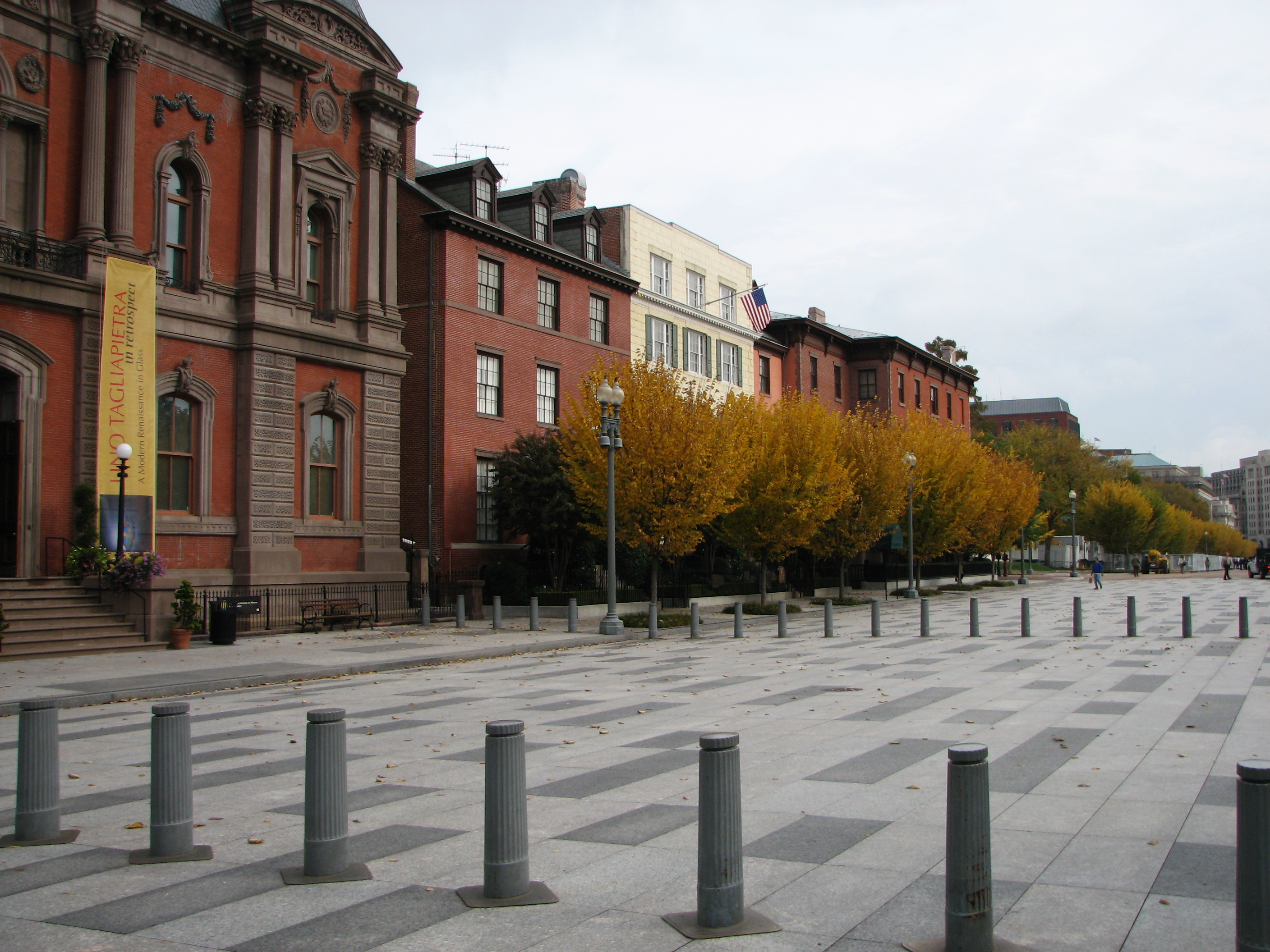 The Renwick Gallery and the Blair House on Pennsylvania Avenue.